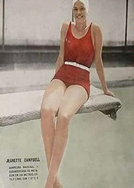 Jeanette Campbell. Argentine swimmer. Silver Medal, Olympics 1936